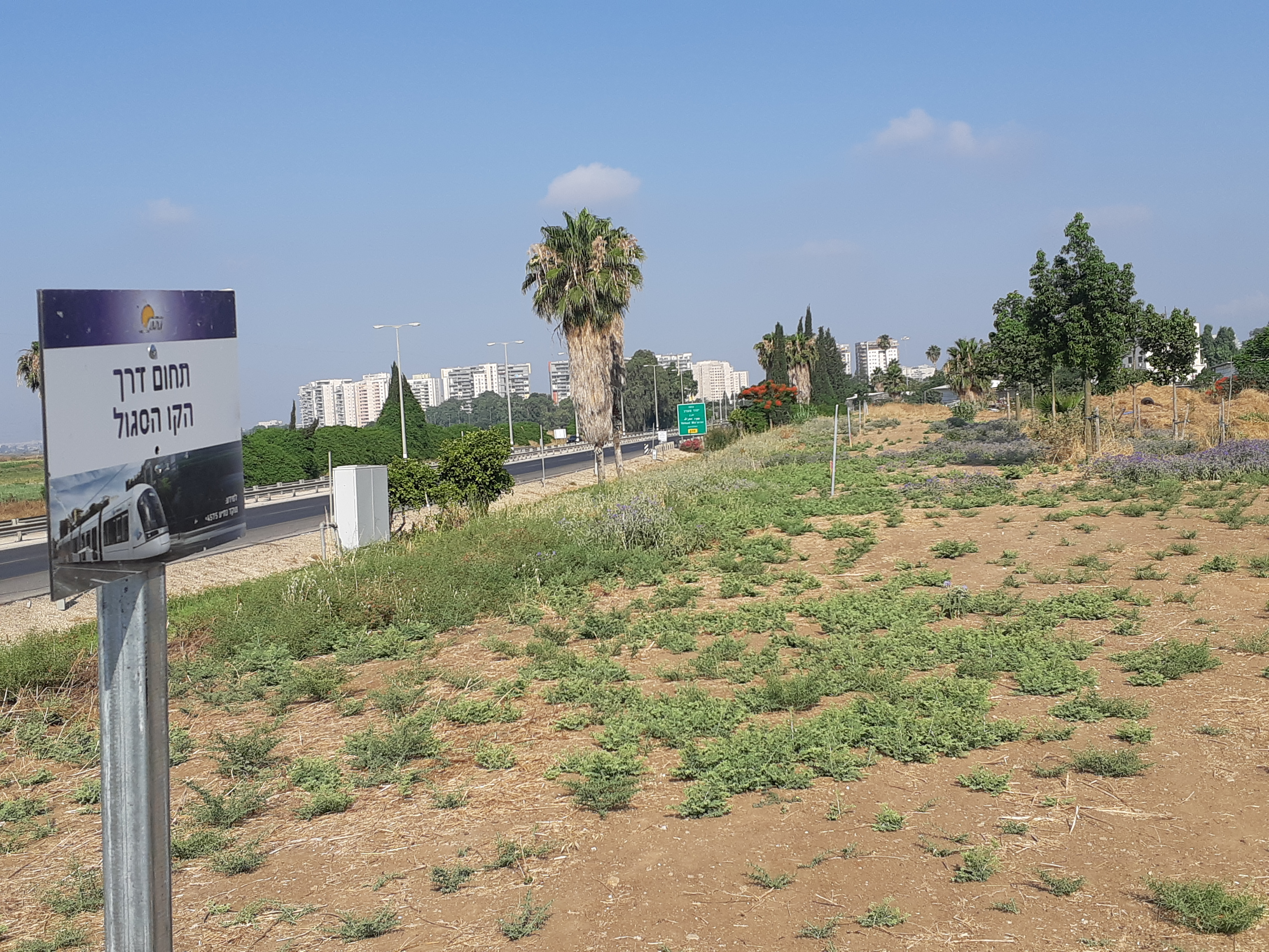 Tel Aviv Light Rail Purple Line Signed Area